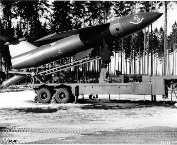 Martin TM-61A "Matador" cruise missile of the 701st Tactical Missile Wing, Hahn Air Force Base Germany United States Air Force Historical Research Agency, Maxwell AFB Alabama From "History and Units of the United States Air Force". G.H.J Scharrings, European Aviation Historical Society, 2004. Image credited as USAFHRA Photo